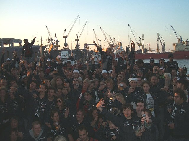 Group photo of Turbojugend members on the 3rd "Welt-Turbojugend-Tage" in St.Pauli, Germany (Used in articles about the band Turbonegro and their Fanclub Turbojugend)